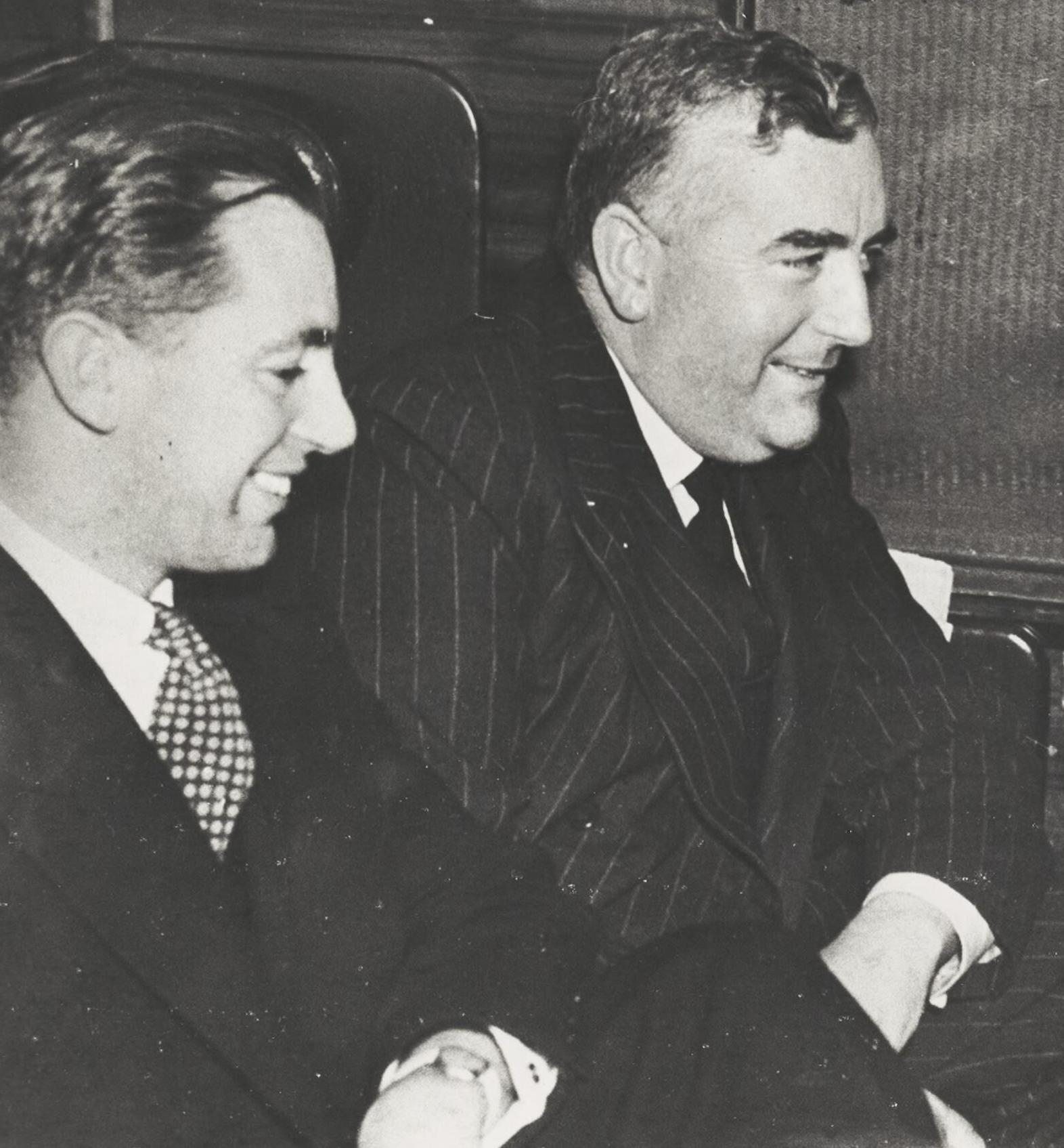 Australian politicians Harold Holt, Robert Menzies, and Geoffrey Street in Melbourne on the day Menzies became prime minister for the first time. Holt and Street became members of his ministry.